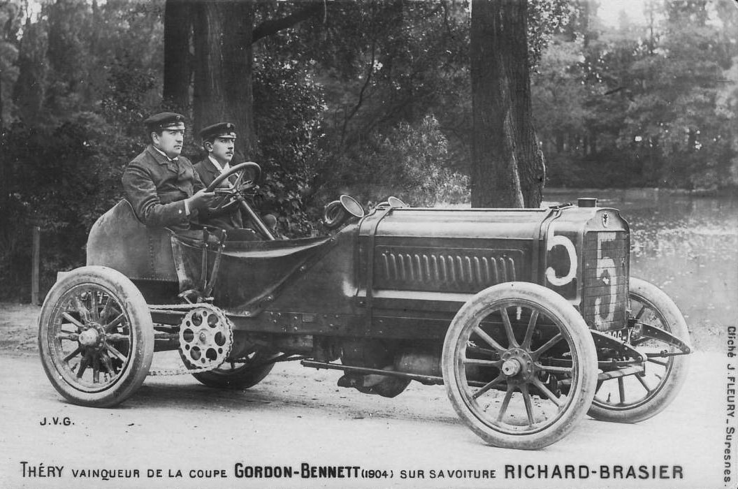 Léon Théry, winner of the 1904 Gordon Bennett, driving a Richard-Brasier. Old postcard of 1904.